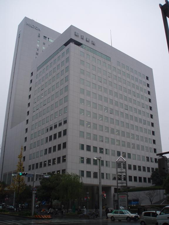 Photograph of Nagoya Asahi Building, Asahi Shimbun Nagoya Office in Naka-ku, Nagoya, Aichi, Japan, taken on 13 December 2006 by original uploader.